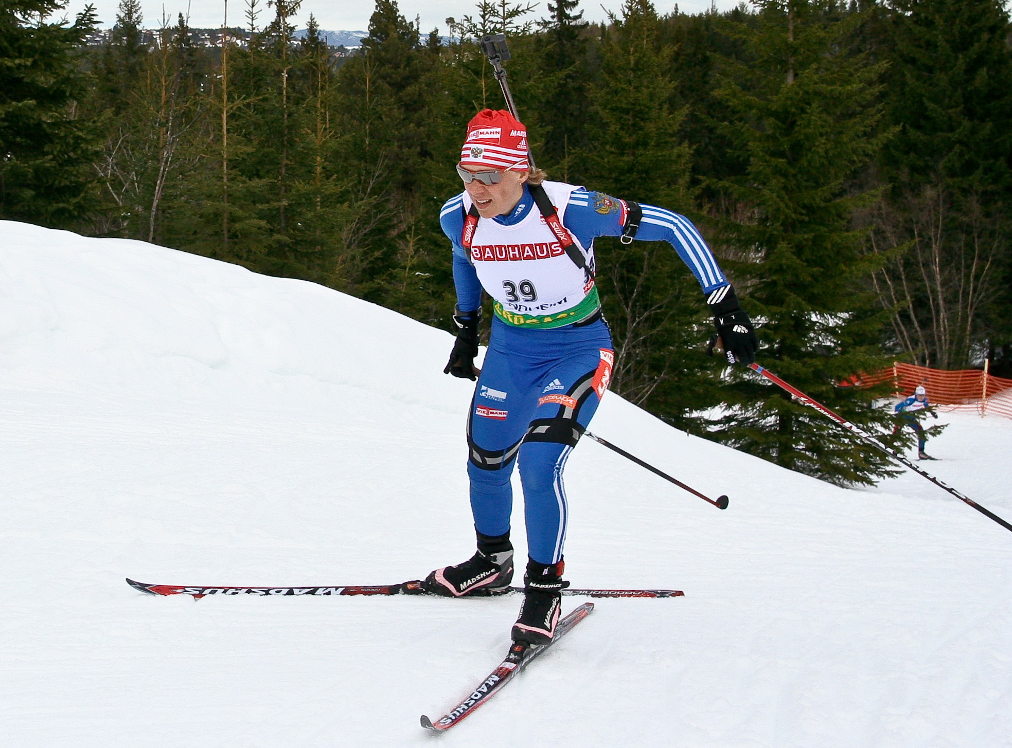 Olga Zaitseva, winner at the IBU World Cup Biathlom Trondheim 19 March 2009. The license on this photo was changed on 15 February 2010 from All rights reserved to Creative Commons (CC-BY-SA). At the same time, a bigger version (2100x1400px) of the photo replaced the old one. If you use this picture, remember to give credit according to the license (